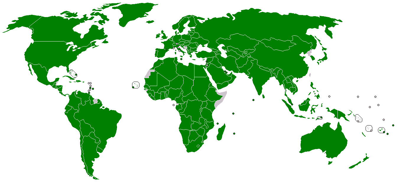 WCO member states